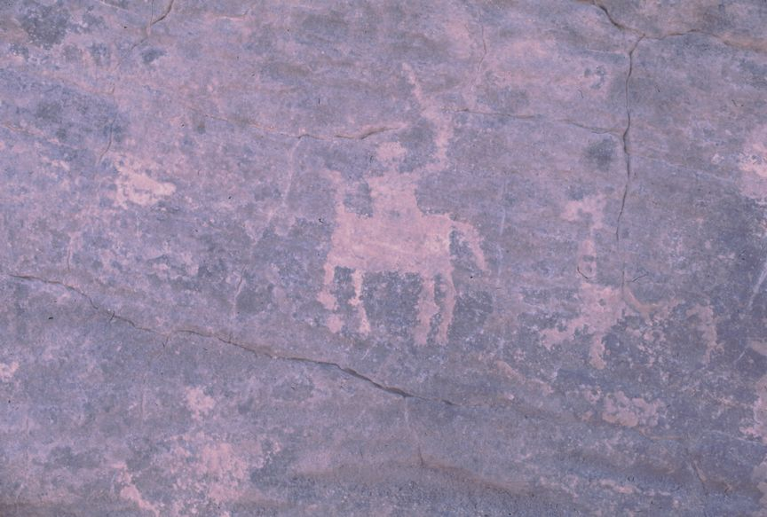 Human figure on horseback.